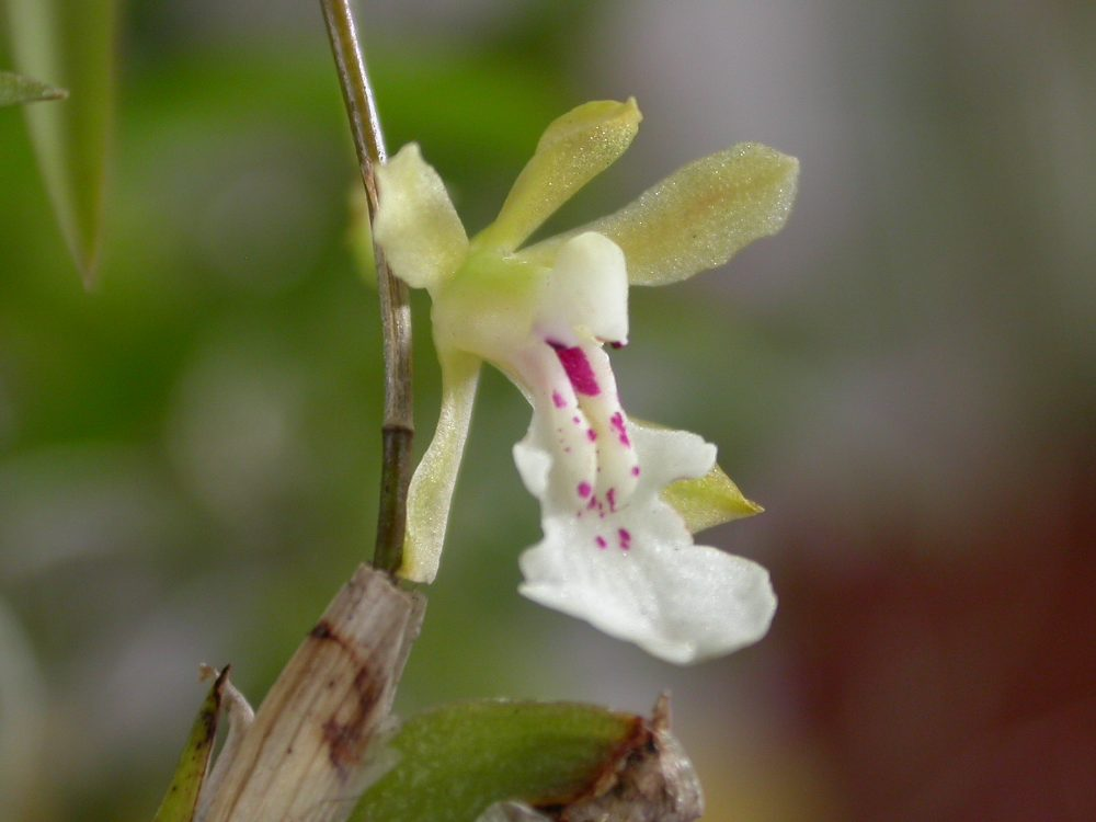 Rodrigueziopsis eleutherosepala